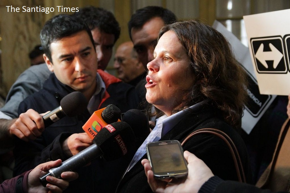 Deposed former-President Salvador Allende's granddaughter said being present today was a way to show support to all those who suffered human rights violations. Photo by Charlotte Sexauer / The Santiago Times.